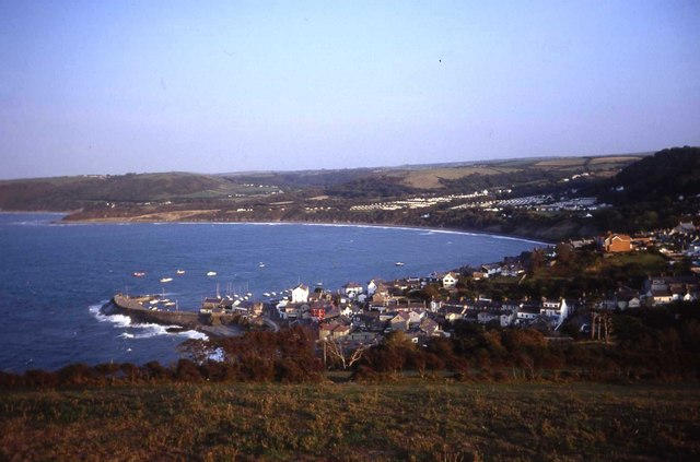 New Quay Overlooking the village from the top of the hill at New Quay Head.